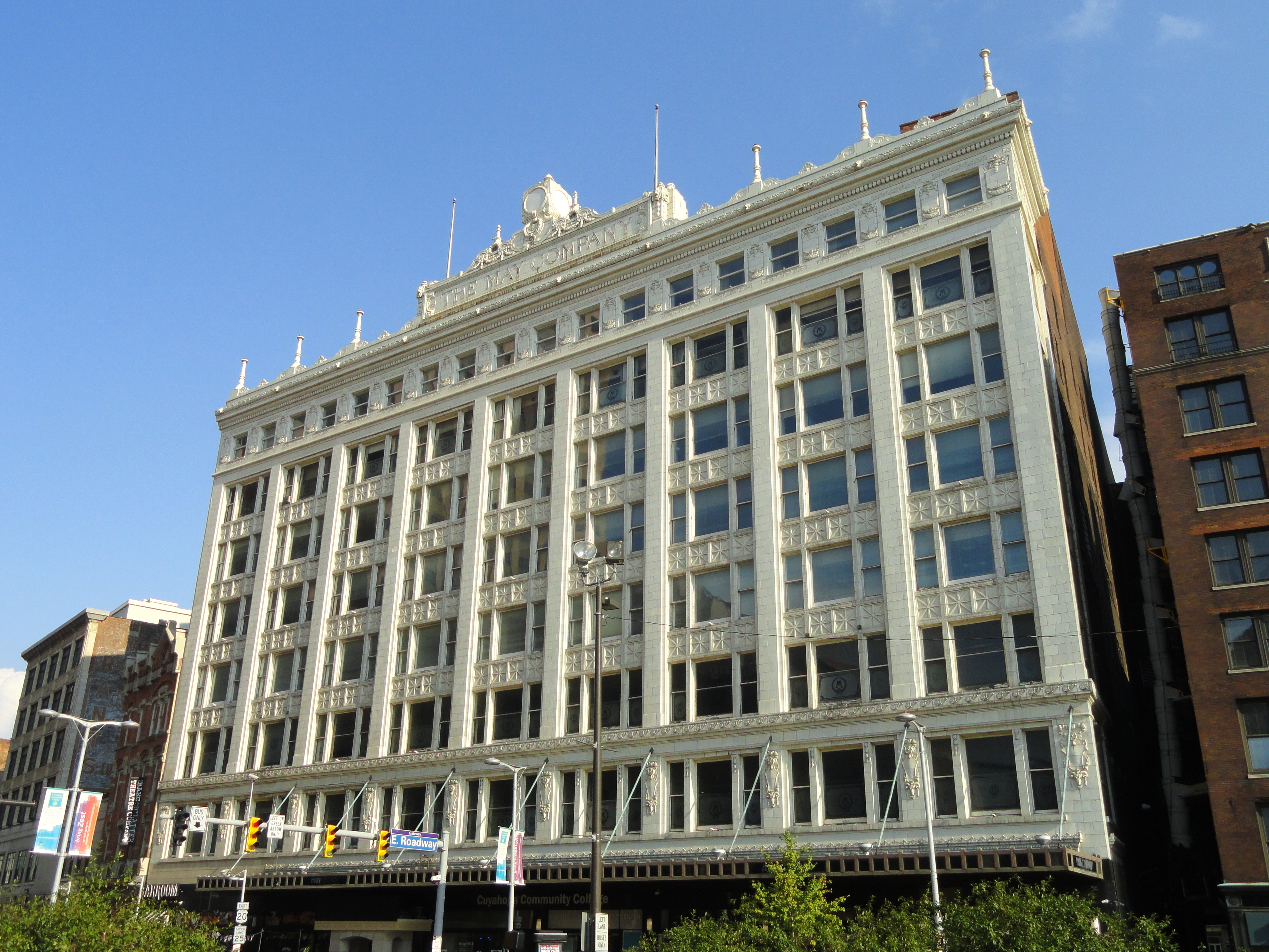 May Company Building, 158 Euclid Avenue, Cleveland, Ohio, USA. Built 1915 with two floors added in 1931; added to the National Register of Historic Places in 1974.